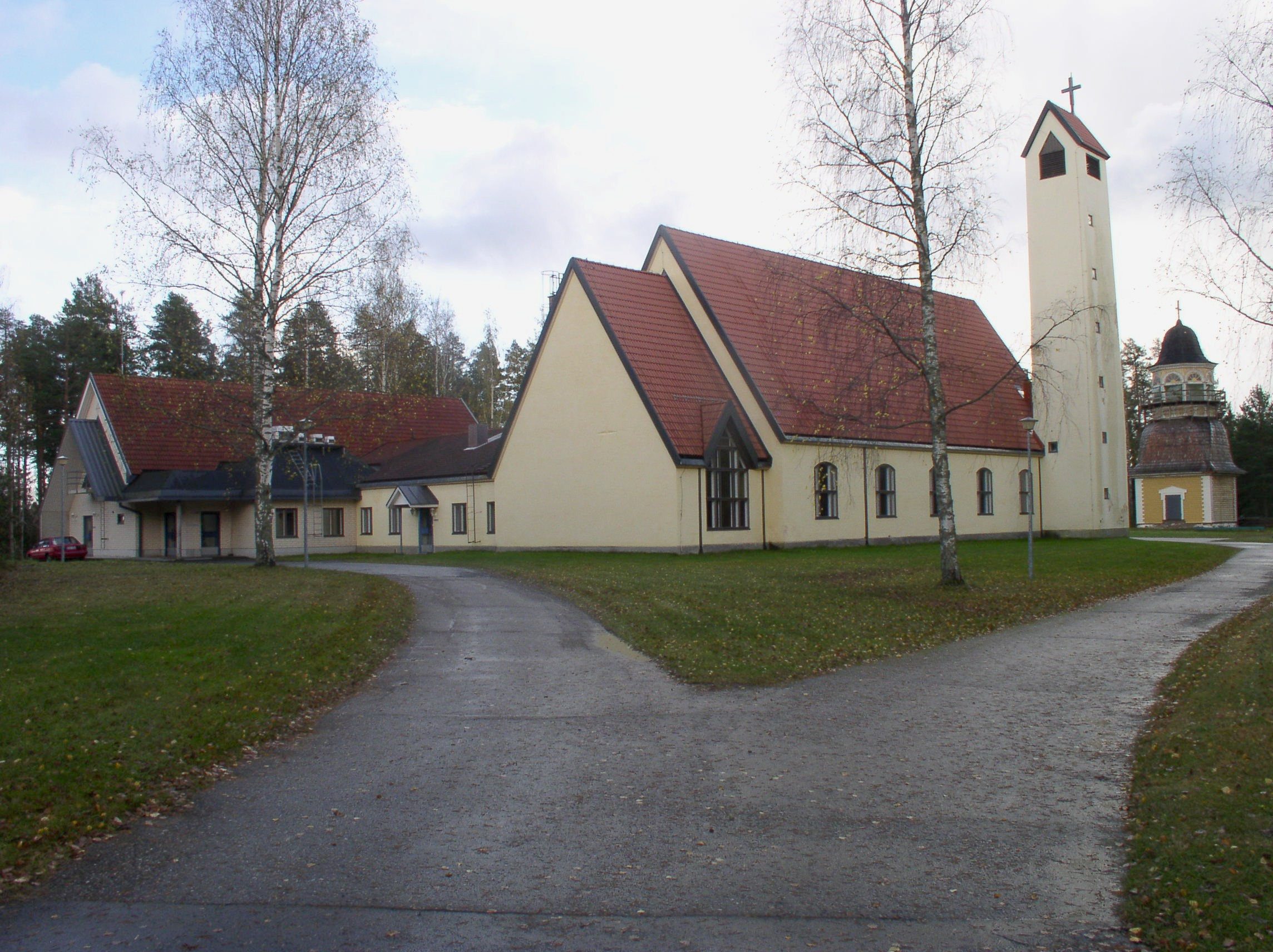 Kesälahti church in Kesälahti, Finland.